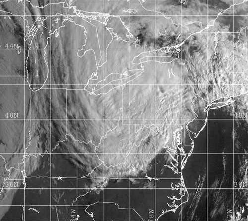 Tropical Storm Isabel over southwestern Pennsylvania shortly before becoming extratropical